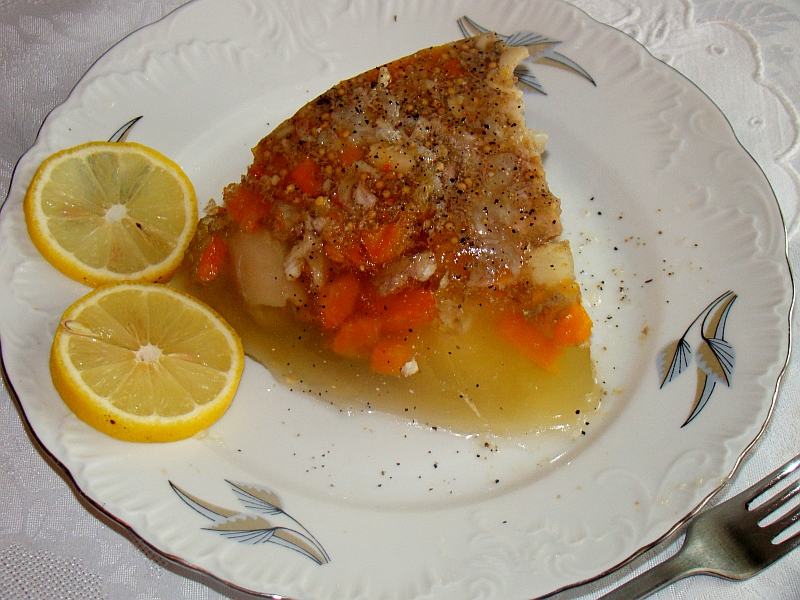 Jellied pig's feet aka "cold legs" (pl. zimne nóżki); eisbein (meat), allspice, bay laurel, mustard plant, carrot, parsley, maggi, etc.